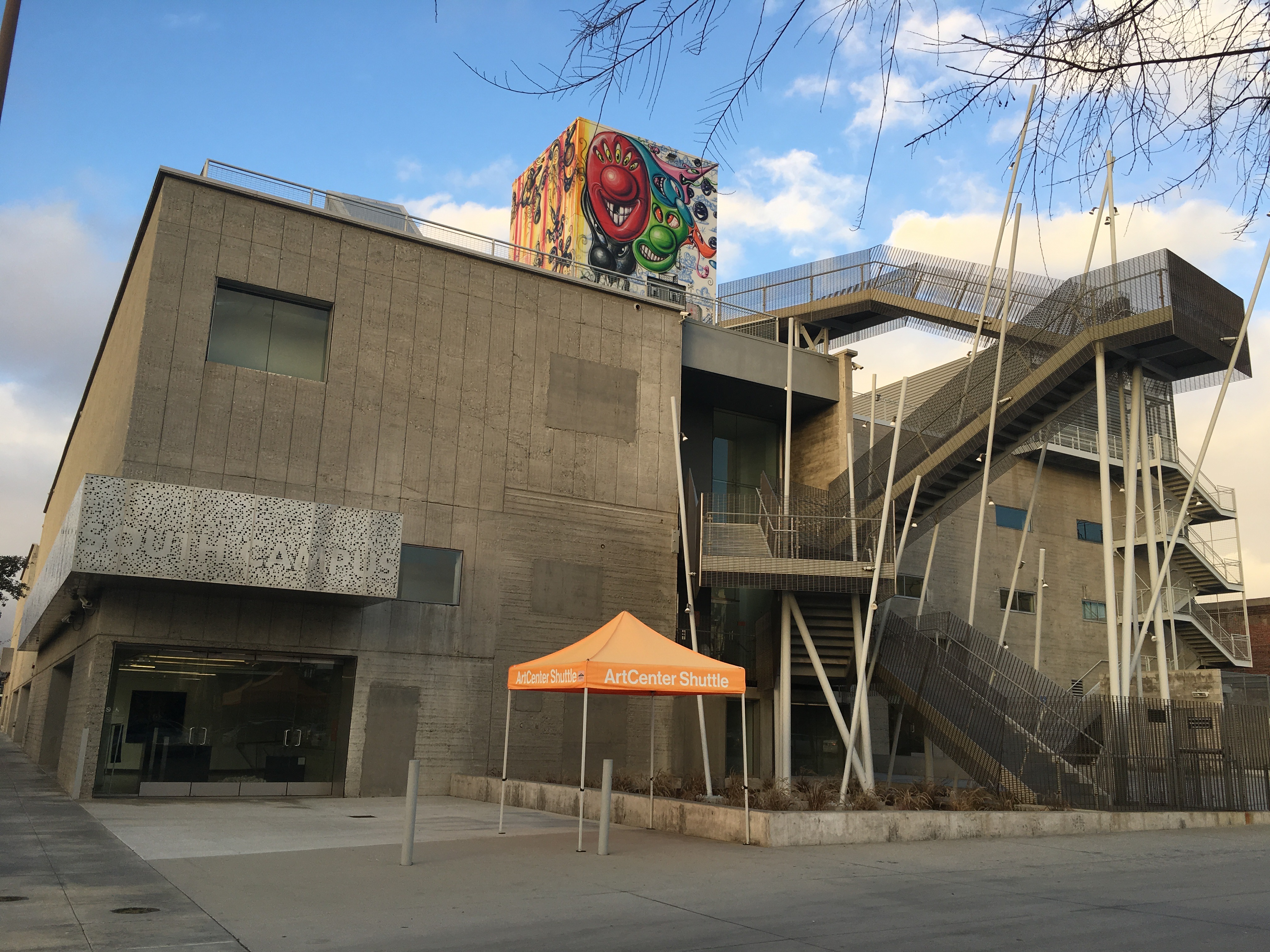 ArtCenter College of Design South Campus Building 1